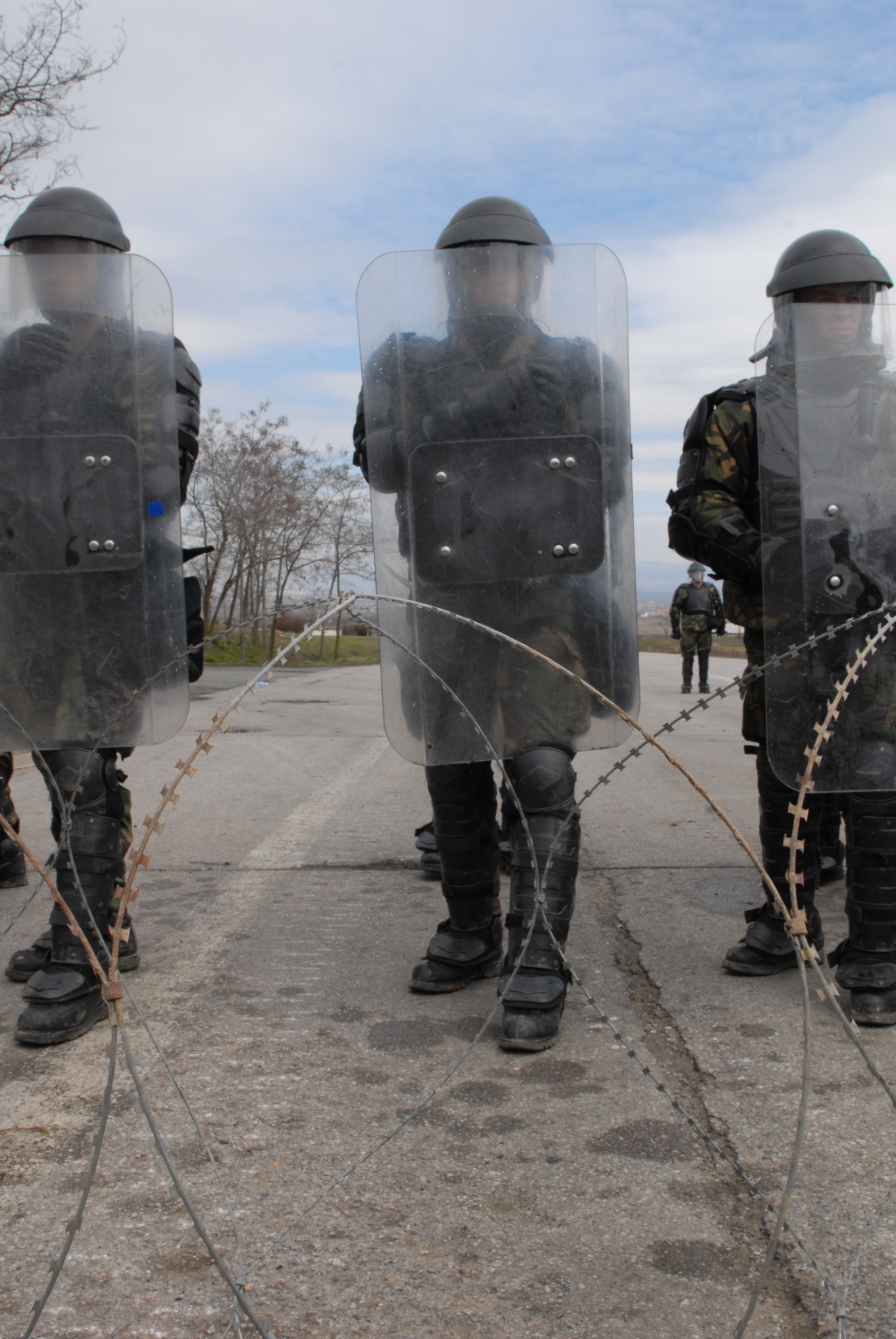 Soldiers from Portugal in a crowd control exercise in April 2009 near Camp Bondsteel, Kosovo, prepare to hold the line.